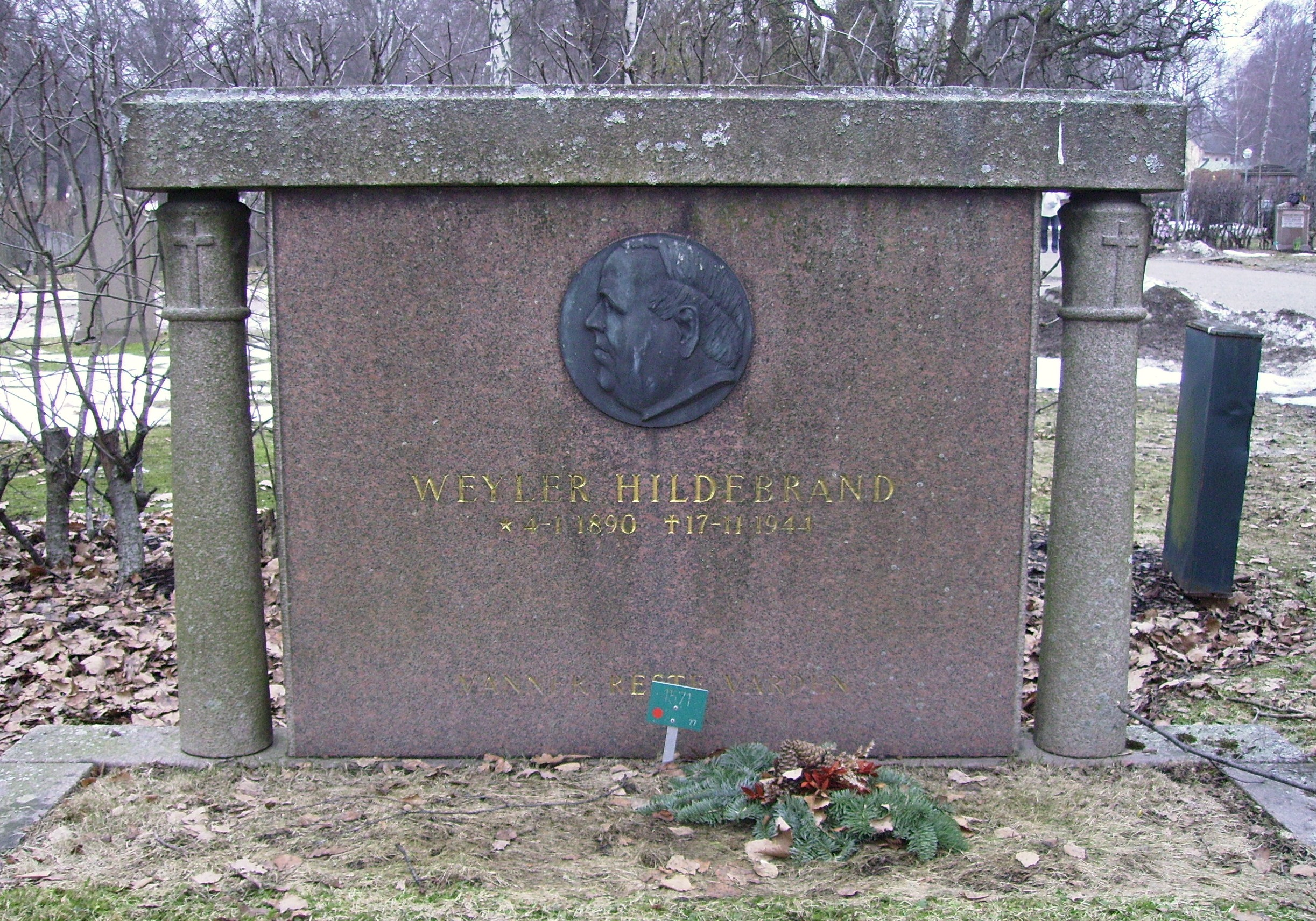 Picture of Weyler Hildebrand's grave at Solna kyrkogård